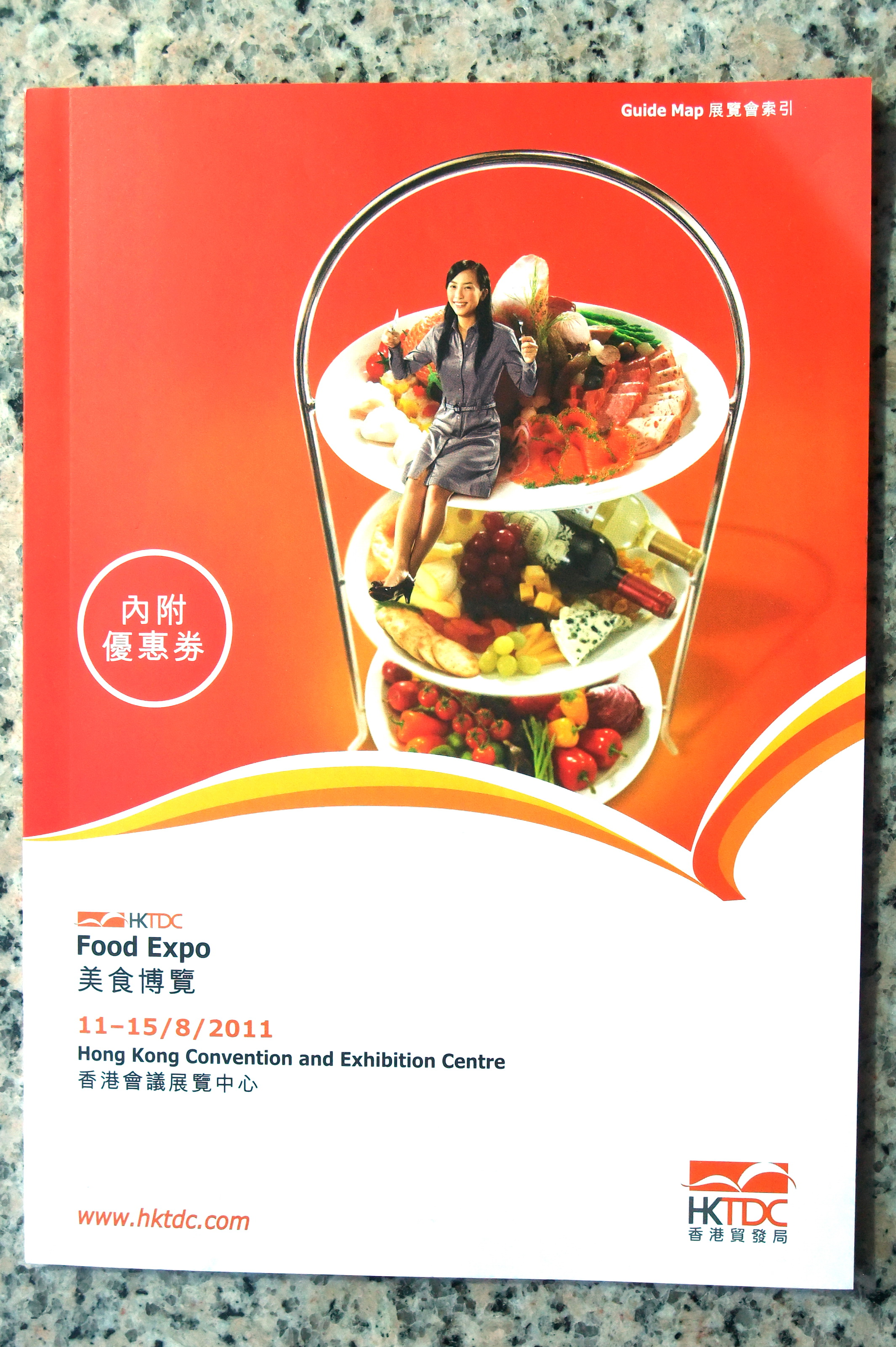 HKTDC Food Expo 2011 Guide Map